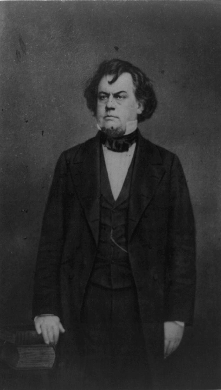 Robert Augustus Toombs, of Georgia, three-quarter length portrait, facing slightly left